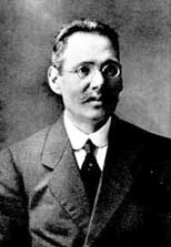 Photograph of David de Melo Lopes